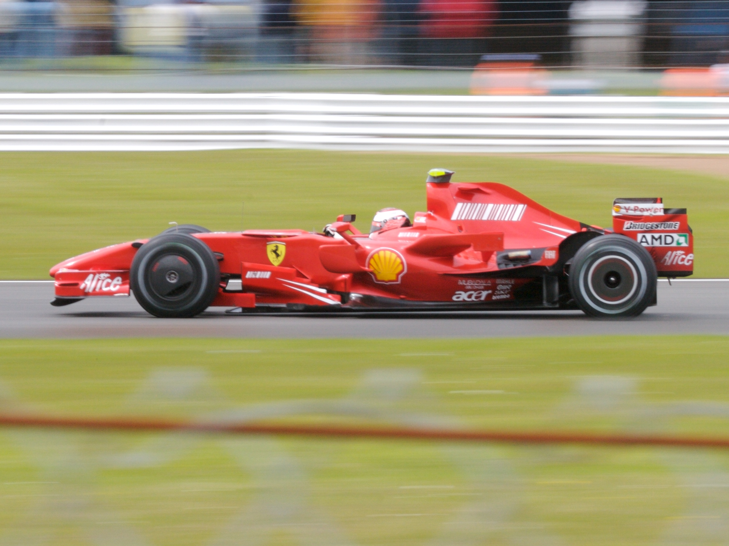 Kimi Räikkönen driving for Scuderia Ferrari at the 2007 British GP